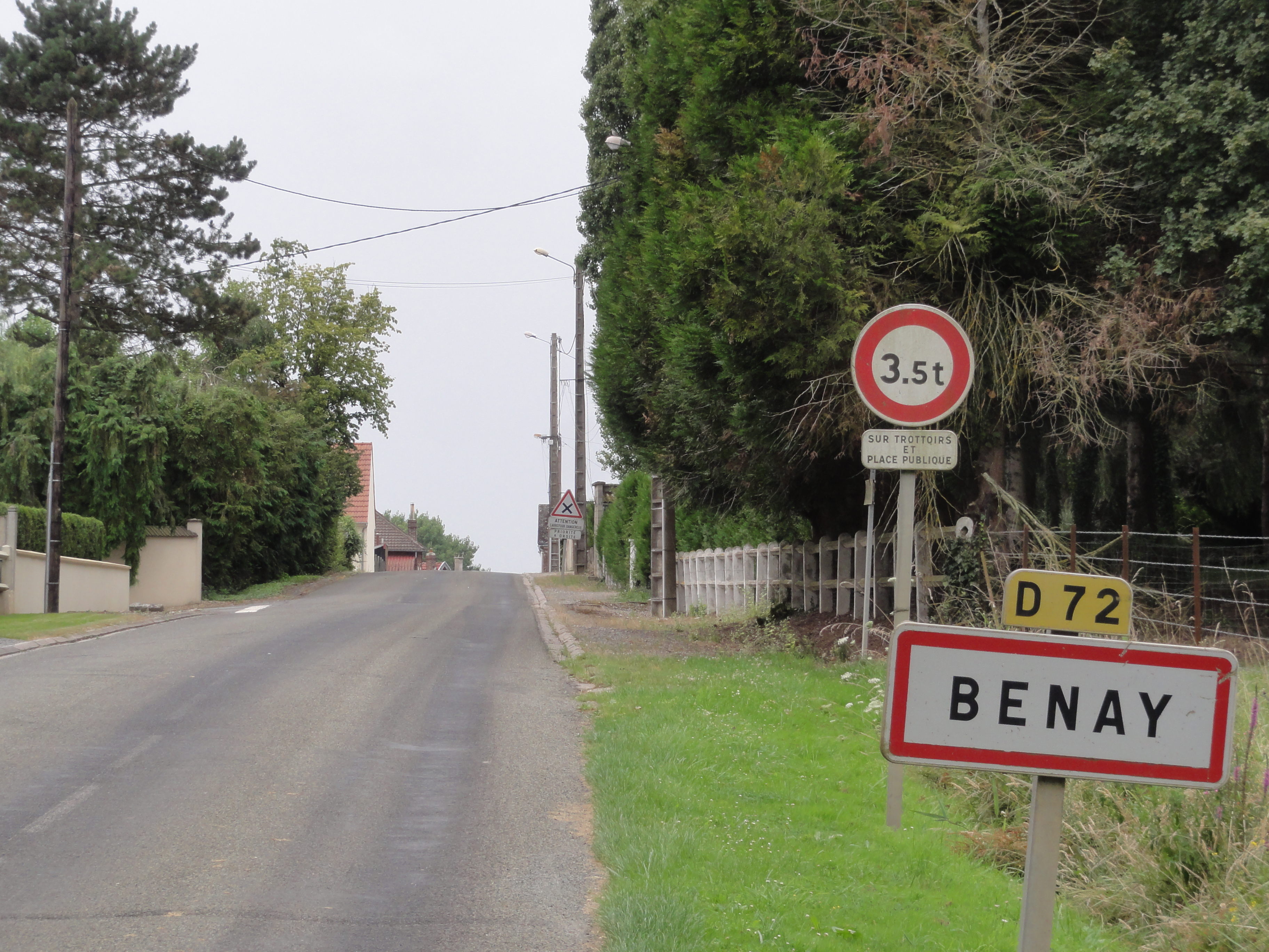 Benay (Aisne) city limit sign